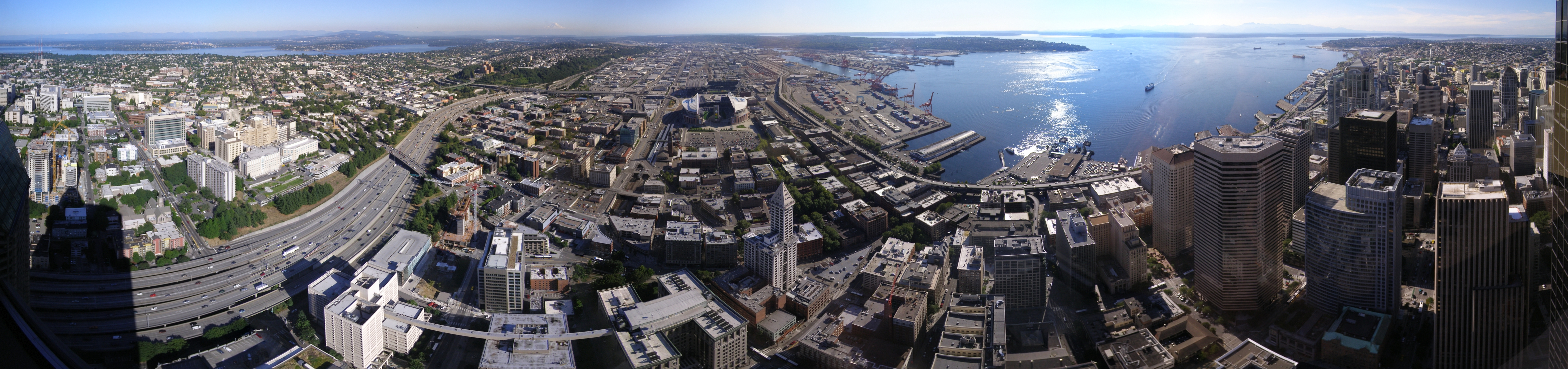 Panorama shot at the 73rd floor of the Columbia Center (formerly Bank of America Tower) in down-town Seattle.